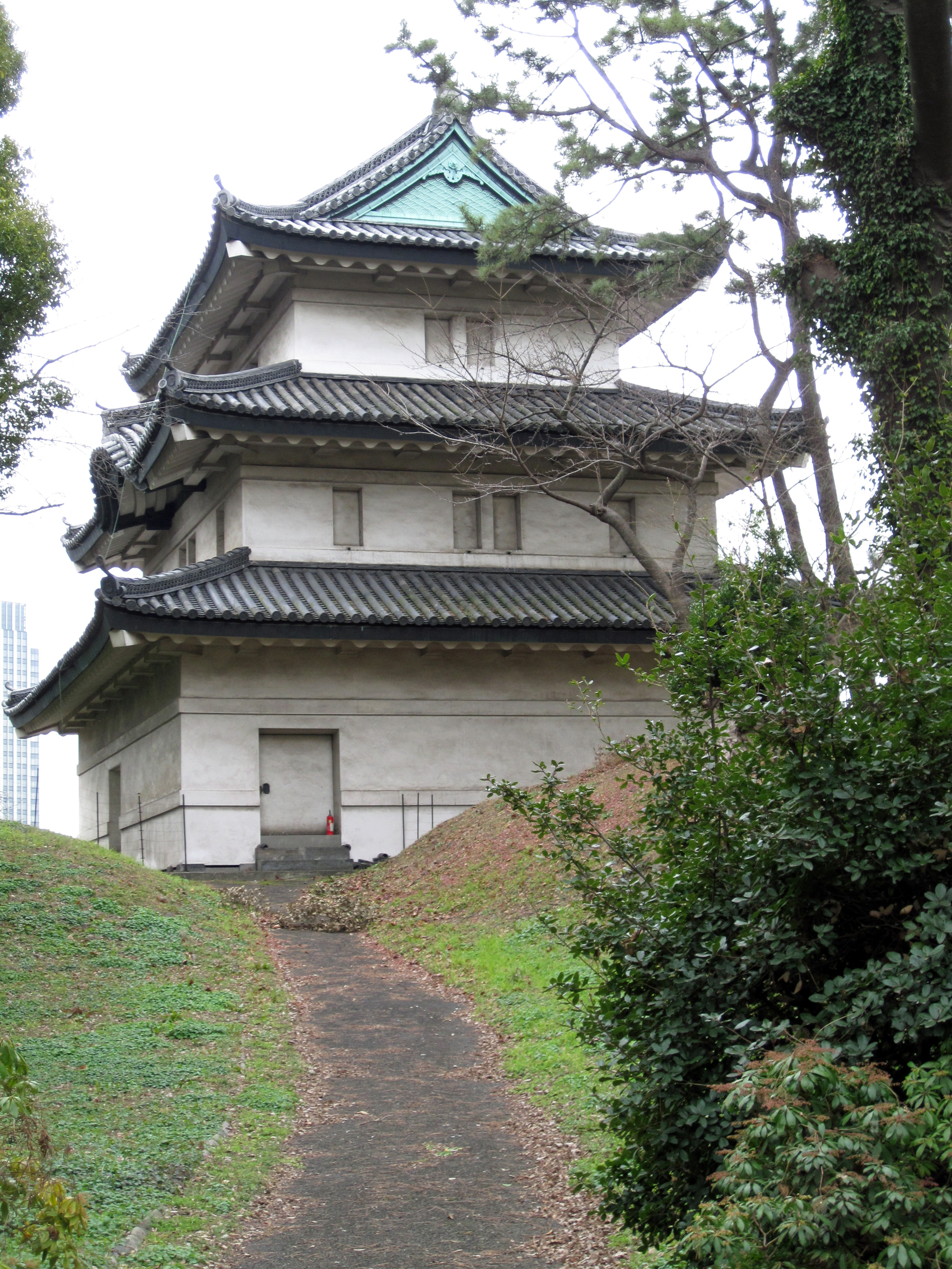 Fujimi-yagura, Edo castle